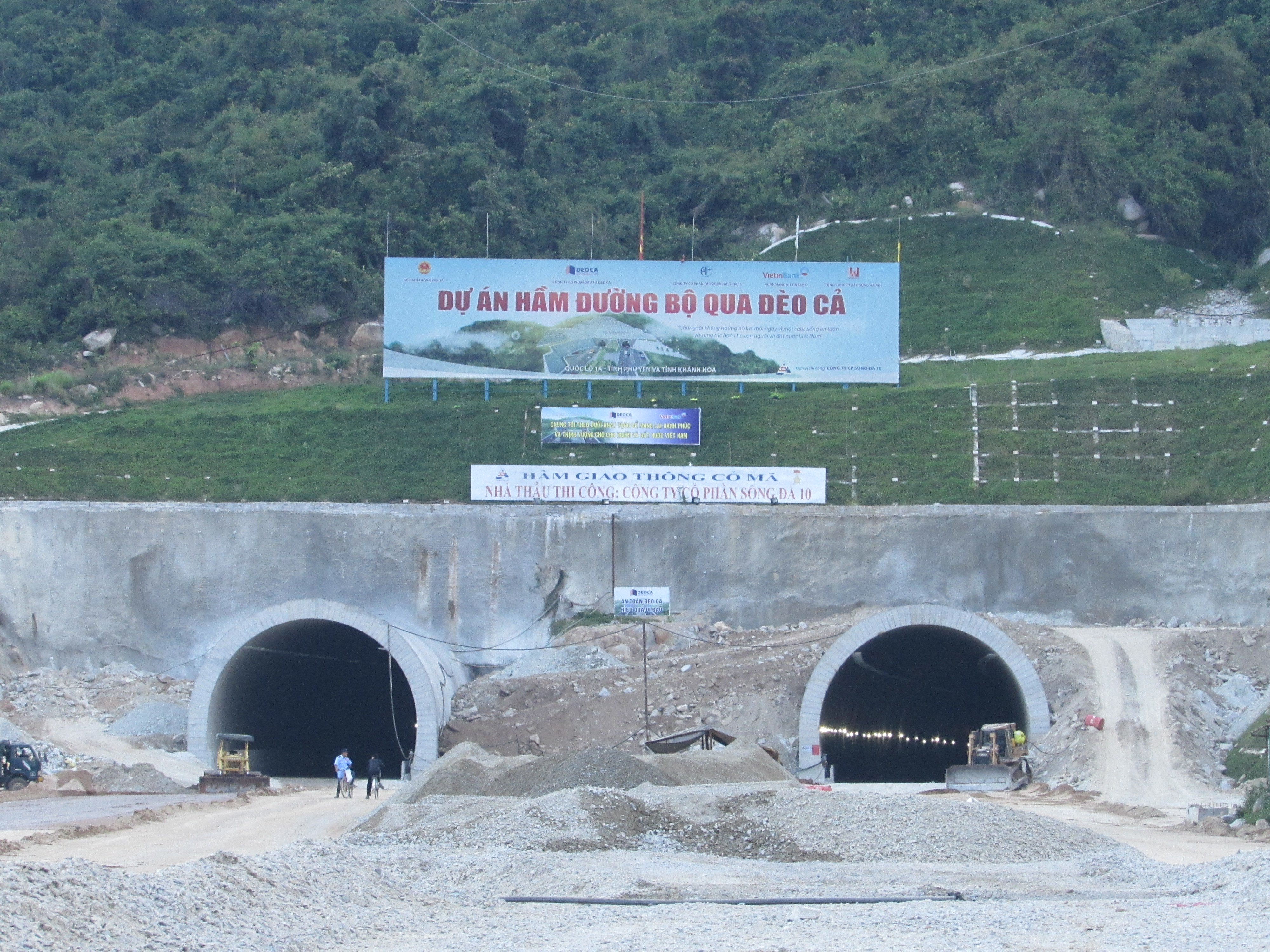 Ca Pass Tunnel under construction